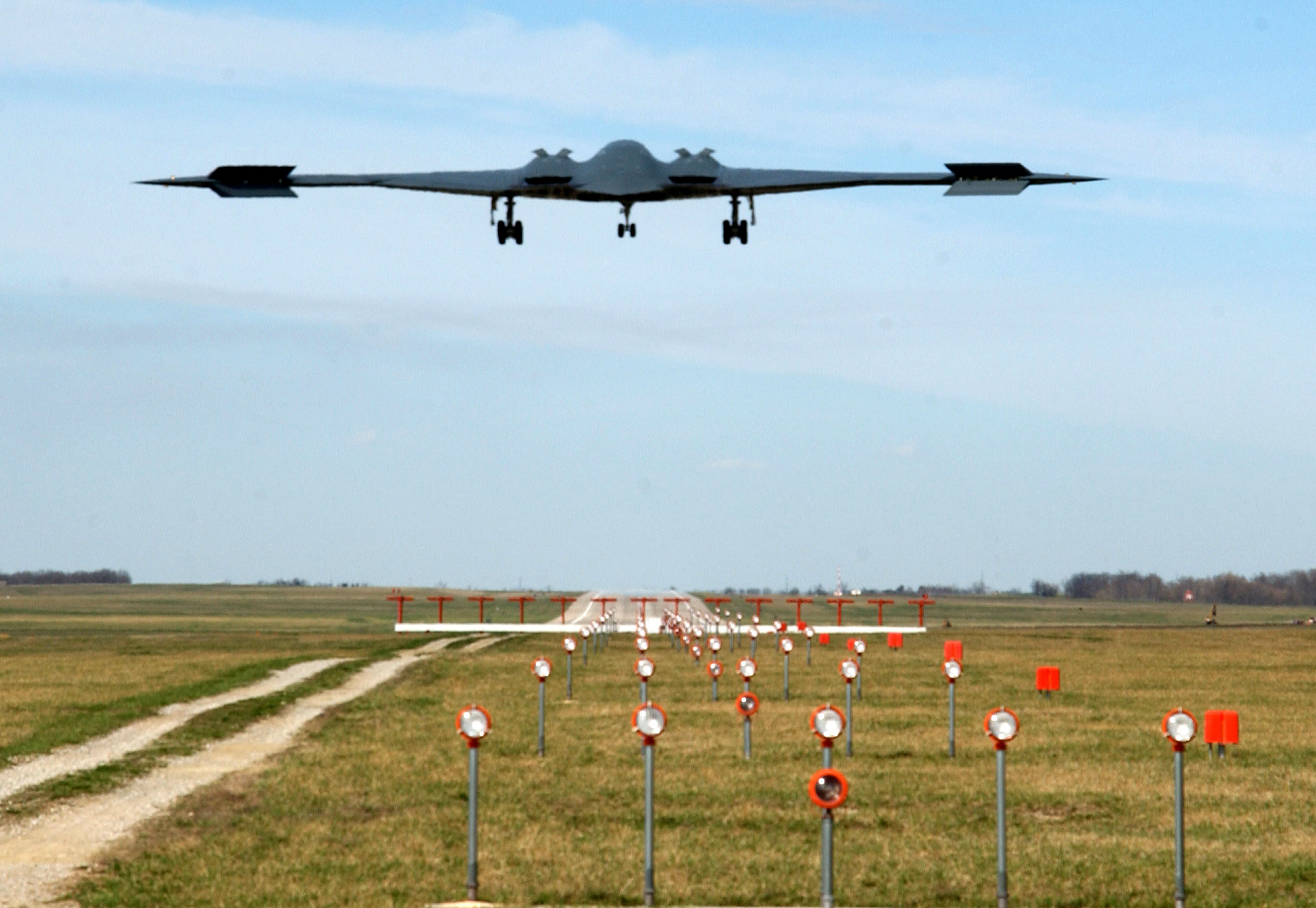 Spirit of MissouriWHITEMAN AIR FORCE BASE, Mo. -- The B-2 named "Spirit of Missouri" returns here after a bombing mission in support of Operation Iraqi Freedom. Pilots are flying 30-plus hour sorties to accomplish missions launched from here.